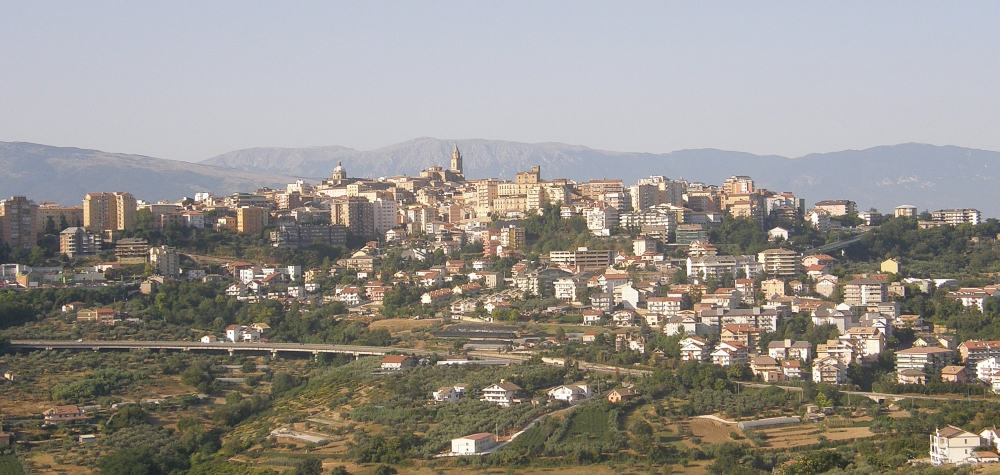 Chieti